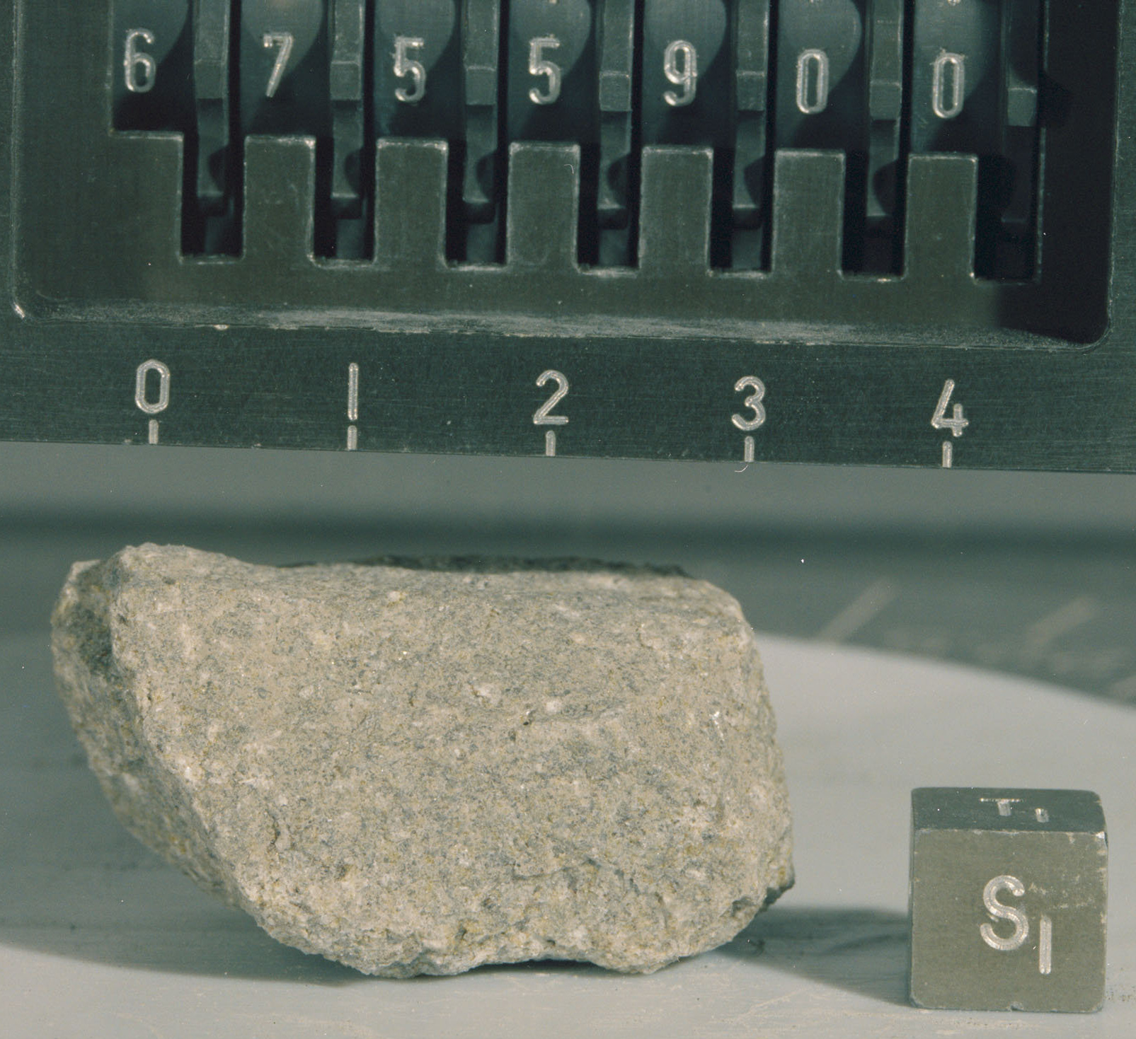 Igneous rock, Apollo 16 lunar sample 67559, collected at North Ray on the moon.